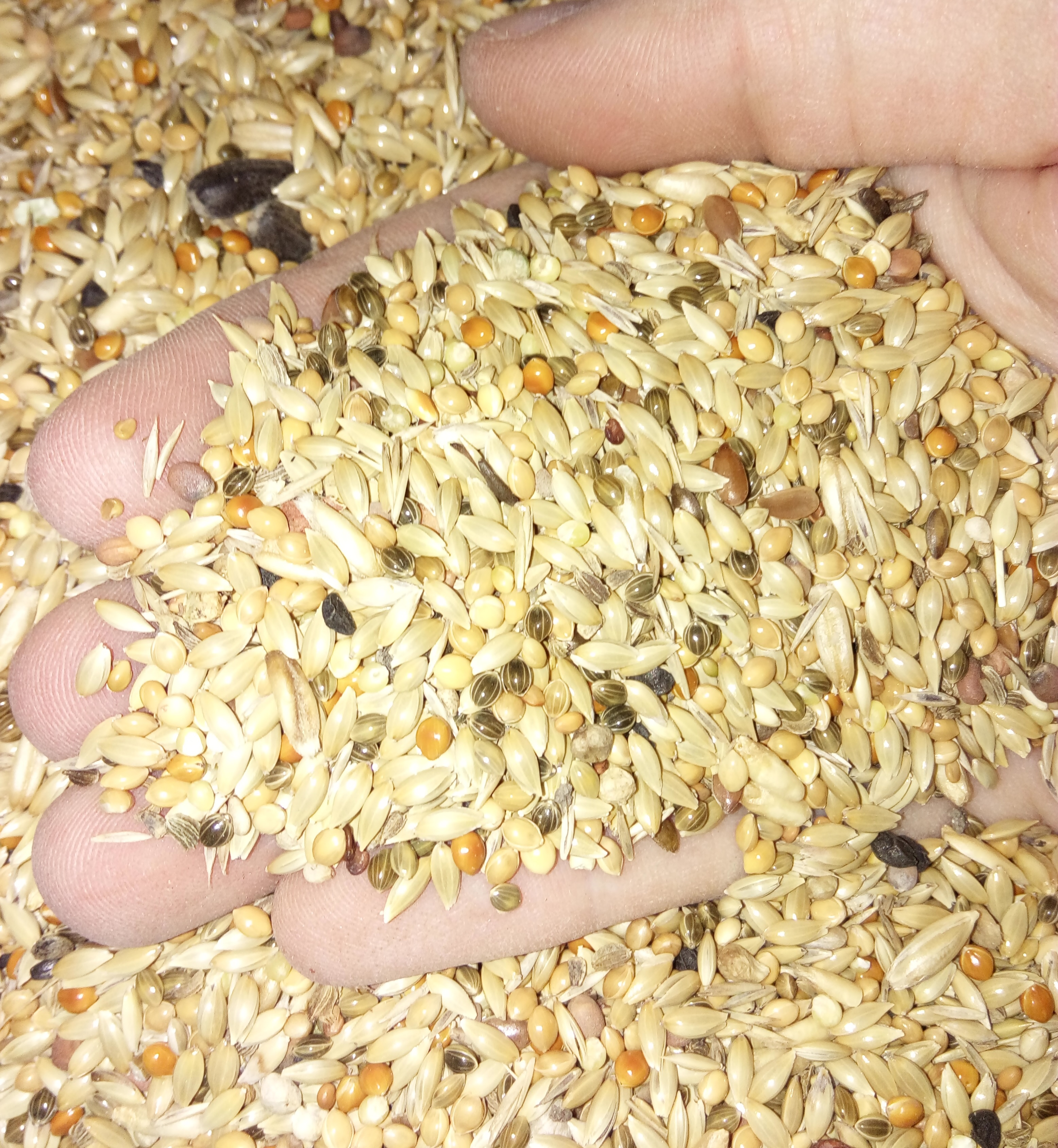 Cockatiel seed mix, prepared portion containing: 50,8% canary seeds 30,5% different types of millet (yellow, red, green) 10,2% mixture of wild seed and different vegetable seeds (more than 10 species) 5,1% of oat 2% oil seeds 1,5% dried fruit and crushed nuts Individually prepared for health benefits.